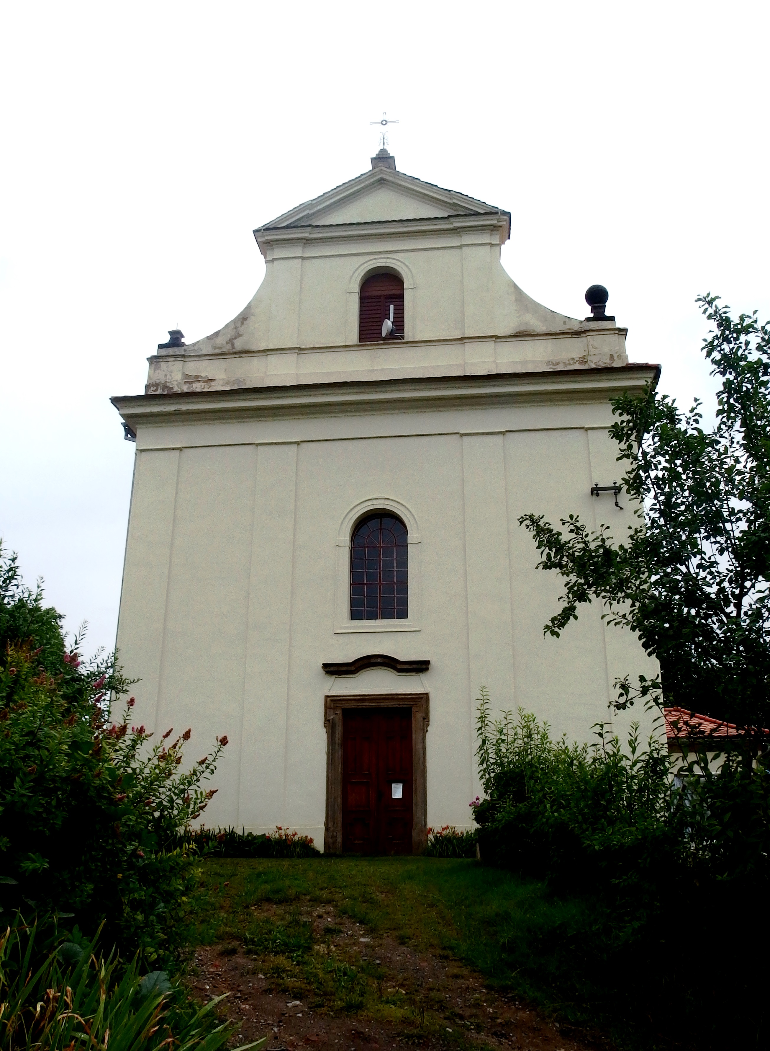 Doksy, Česká Lípa District, Czech Republic, part Kruh. Church of Saint Adalbert.